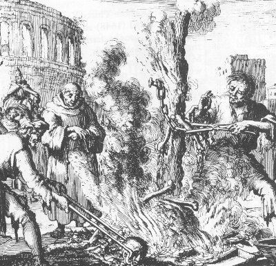 The burning of the remains of Arnold of Brescia (1155).